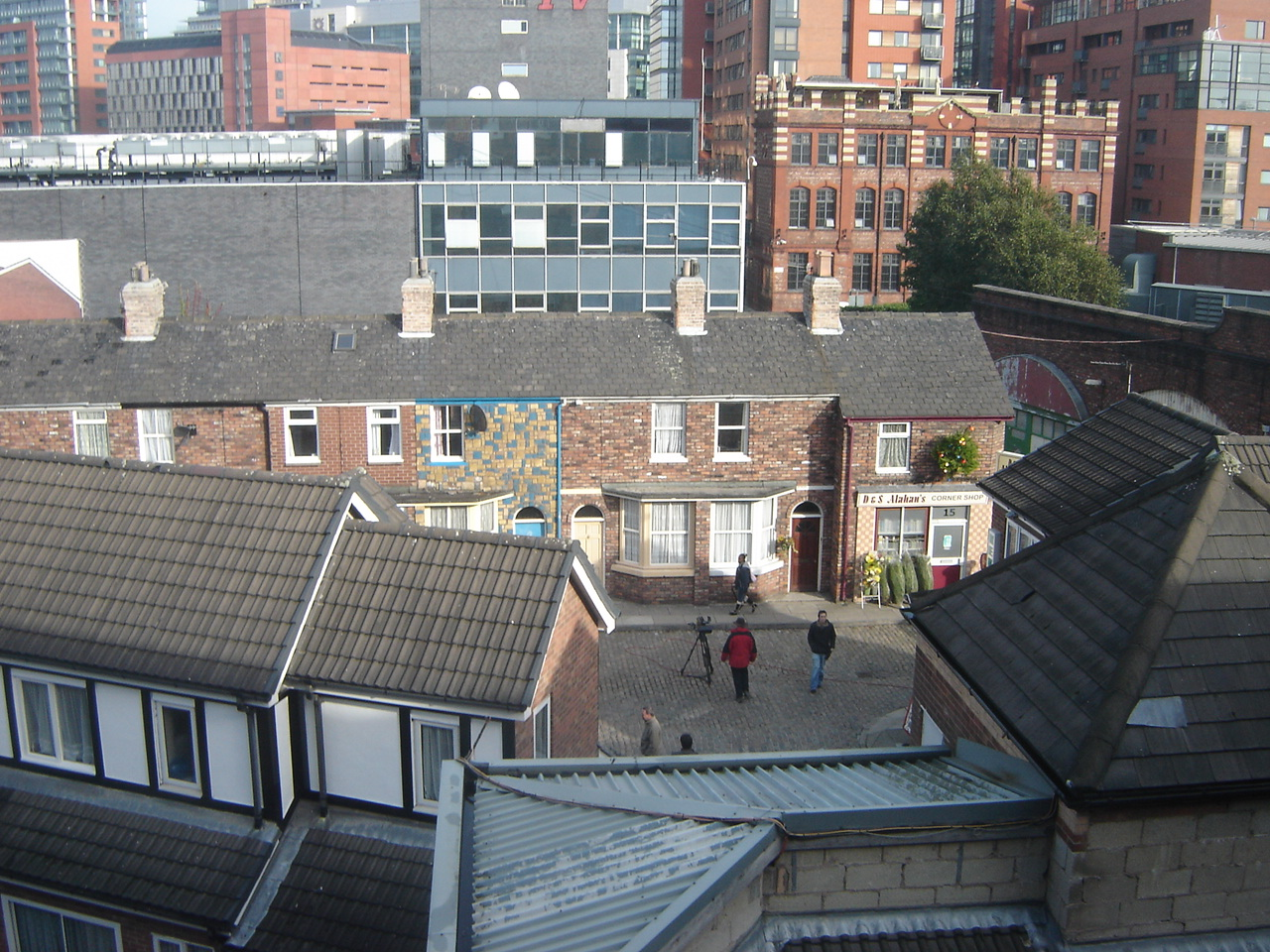 Photo of the outdoor set for the British television show Coronation Street taken from the window of MOSI in Manchester, England